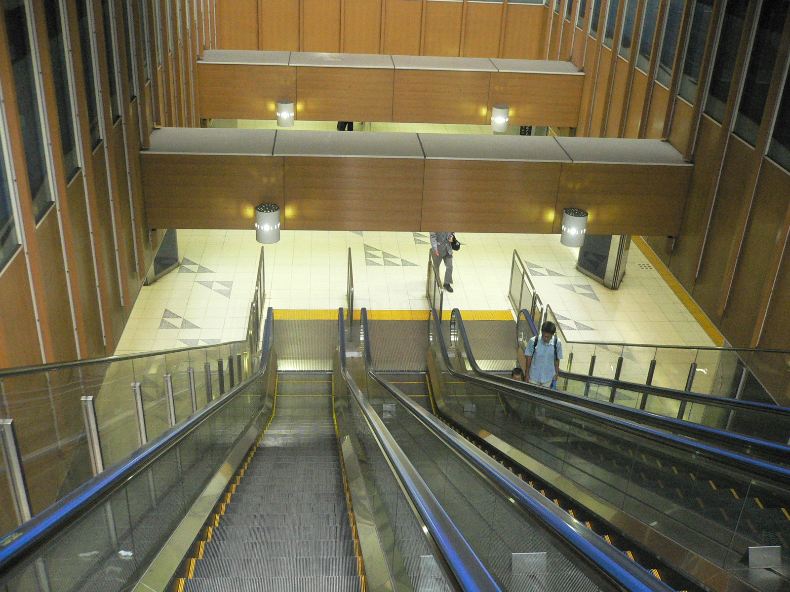 An escalator to Platform in Tokyo Teleport Station